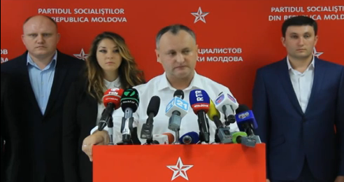 PSRM members at a press conferece, 12 sept. 2014